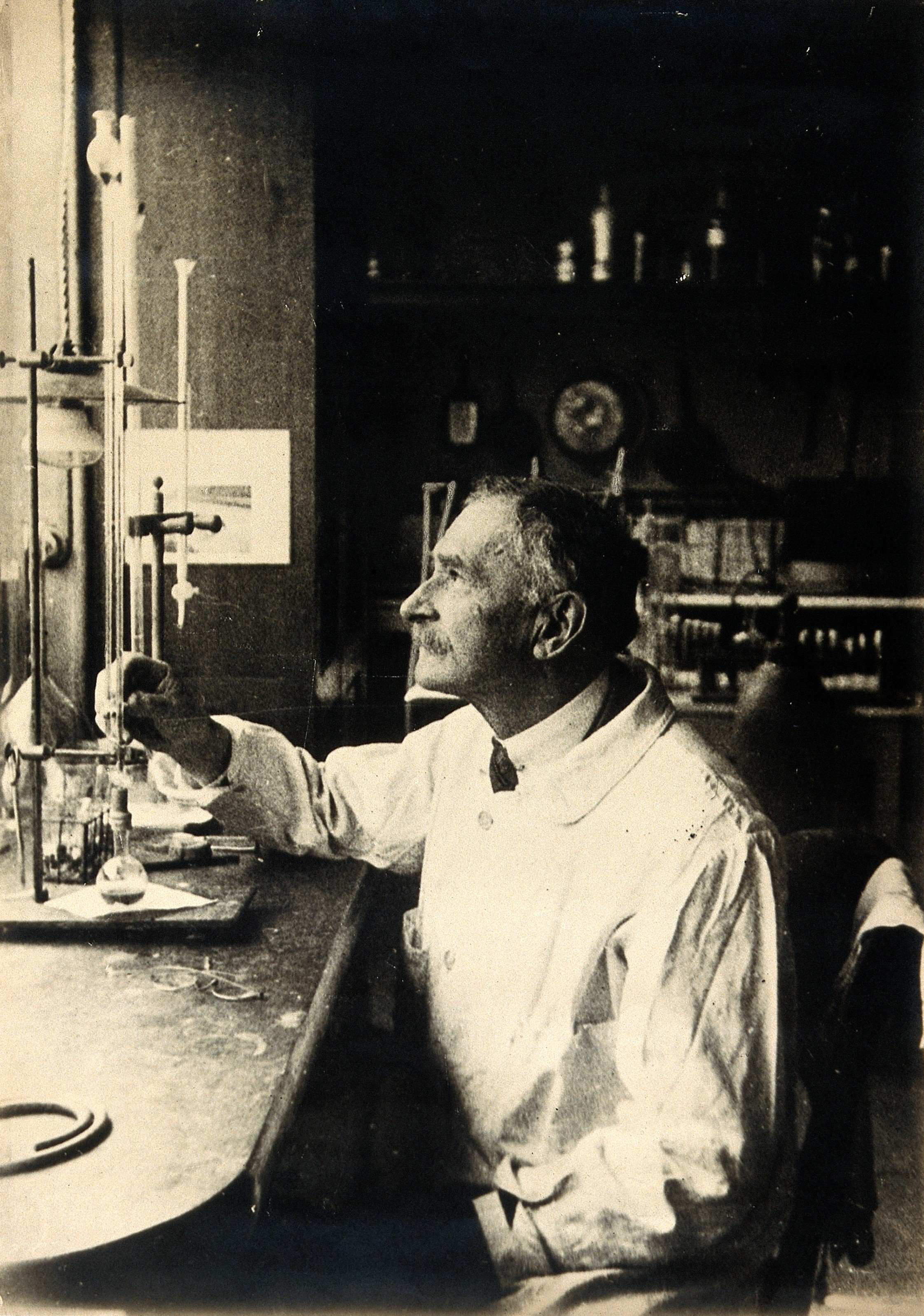 Emmanuel Hédon. Photograph. Iconographic Collections Keywords: portrait photographs